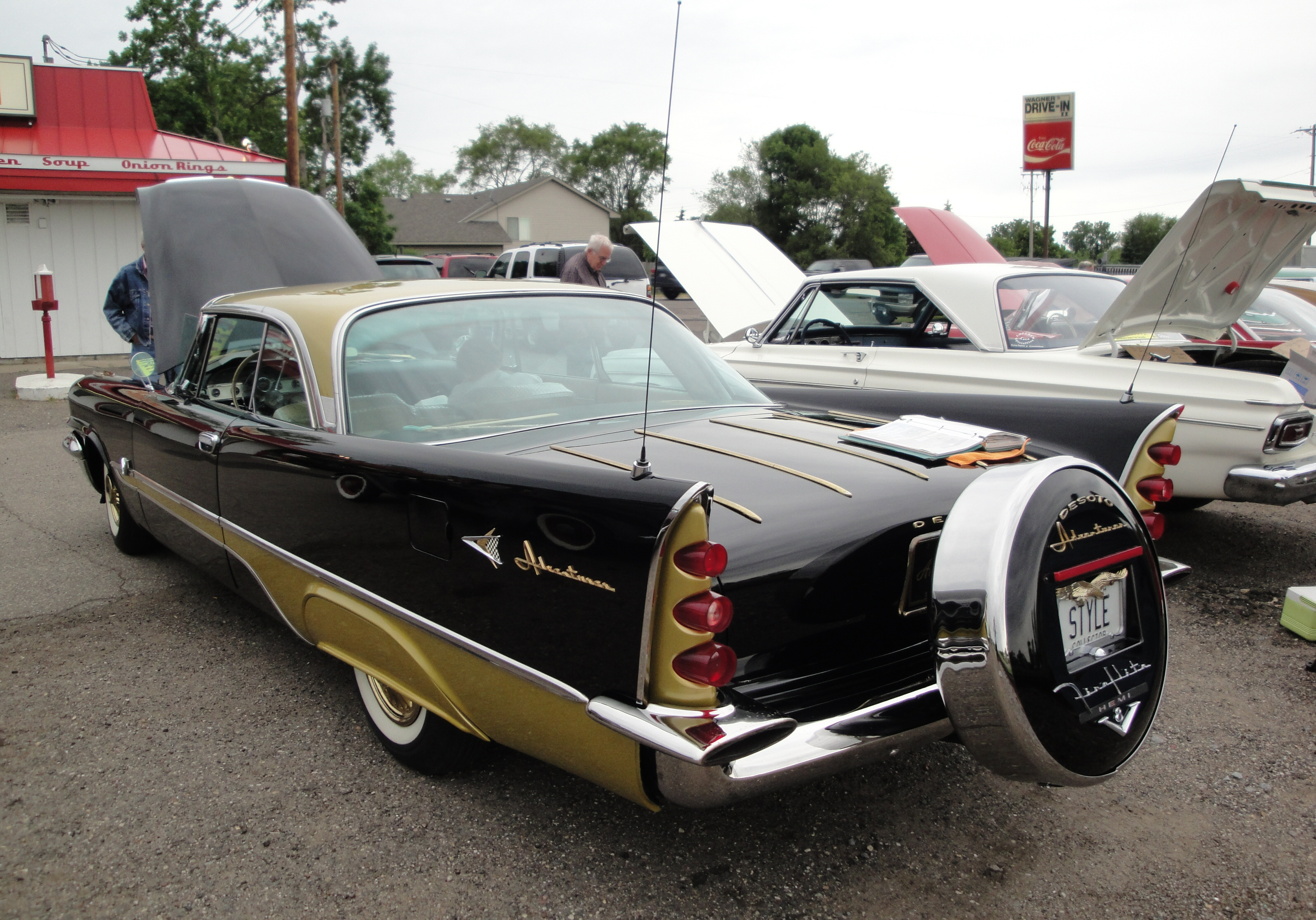 W.P.C. Restorers Club 10,000 Lakes Region Car Show June 12, 2011 Wagner's Drive in